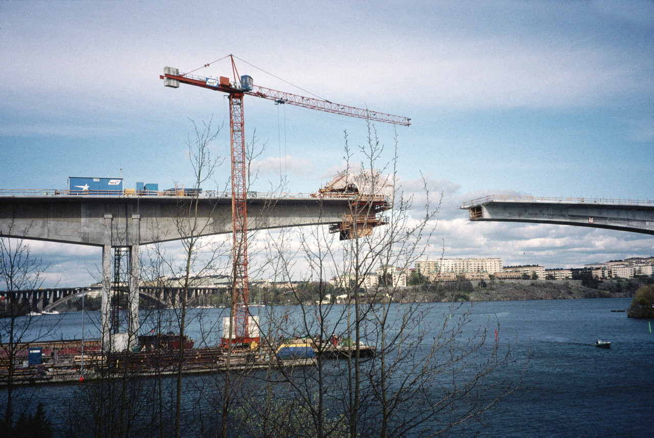 FOTOGRAFIAlviksbron mot nordost under byggnad med Traneberg och Fredhäll i fonden. Brodelarna skall snart fogas samman. 1998-1998 FOTOGRAF: Norgren, Klas.BILDNUMMER: Dia 9505Stadsmuseet i Stockholm